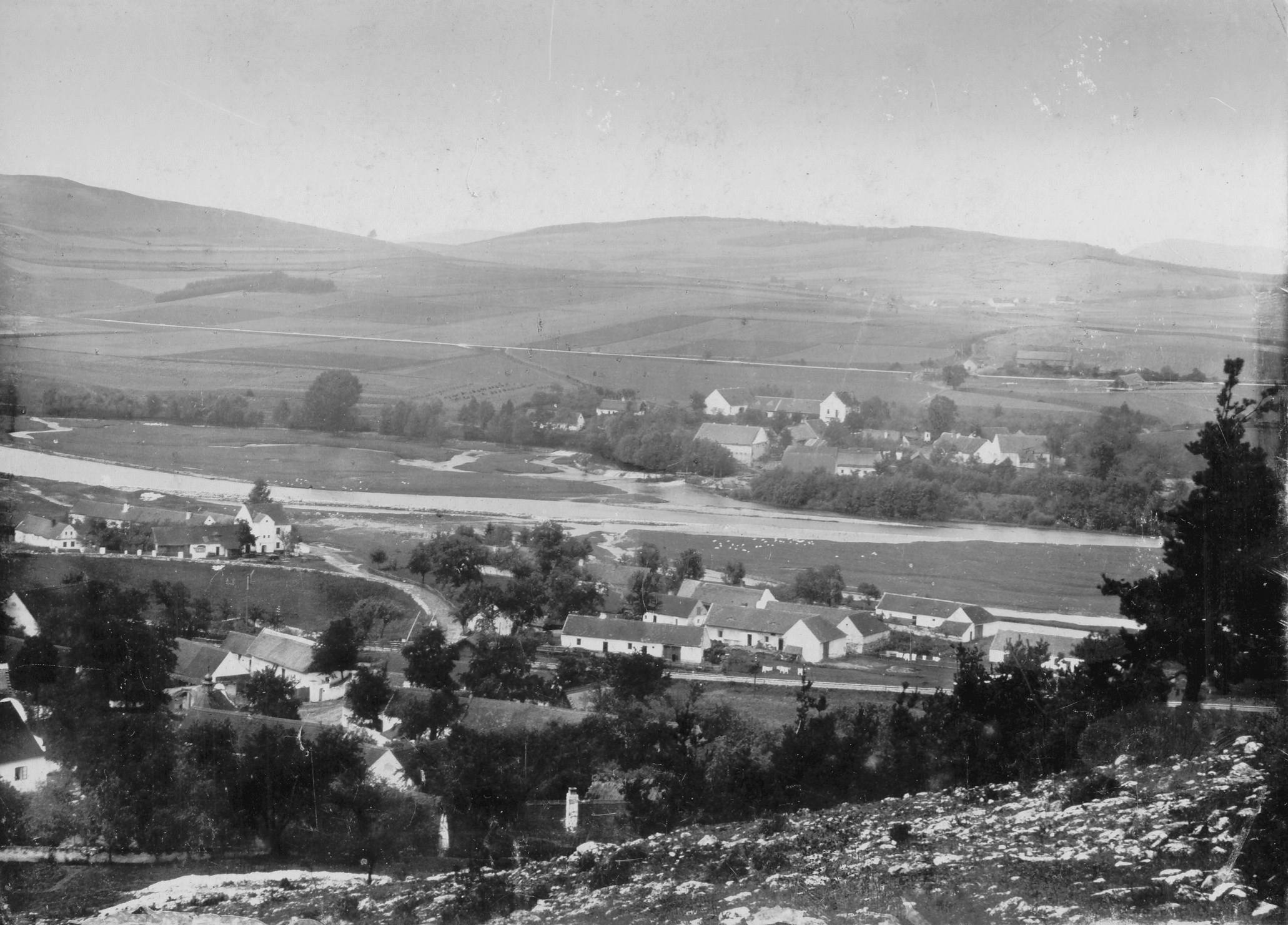 Villages of Velké Hydčice (foreground) and Malé Hydčice, separated by the Otava River. Nowadays Klatovy District, Czech Republic.